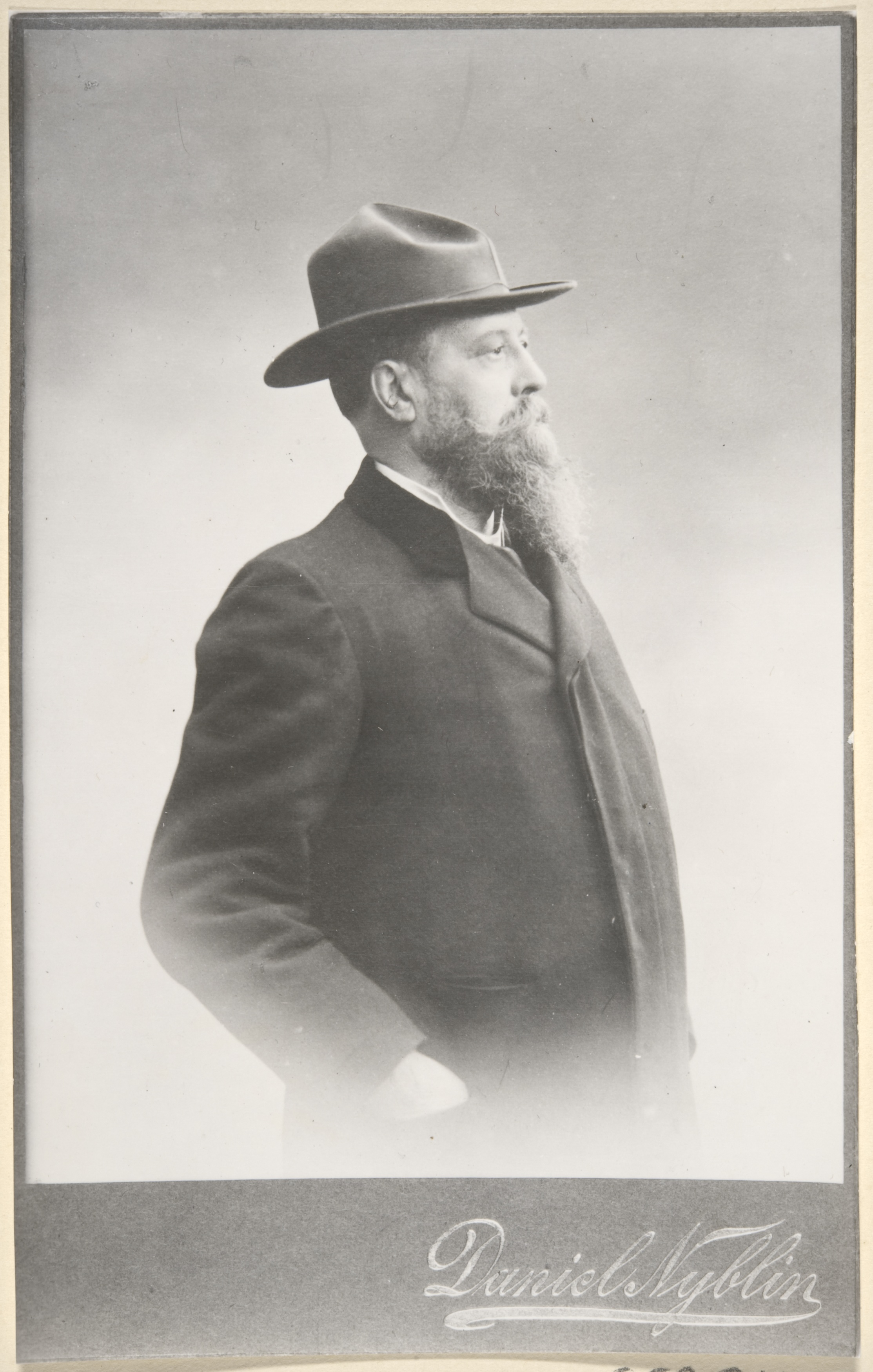 Photograph of the Finnish businessman Fredrik Wilhelm Grönqvist (1838–1912).